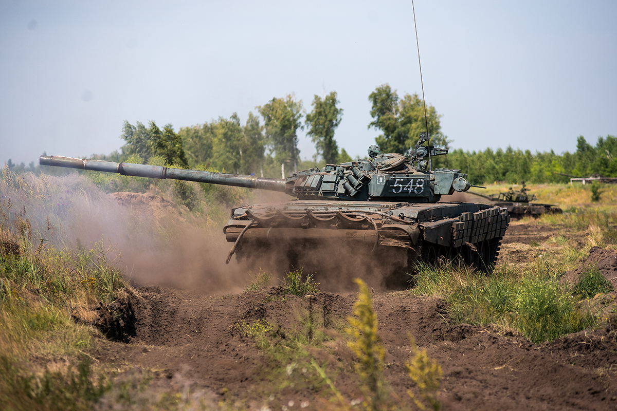 3rd Motor Rifle Division of the Russian Armed Forces.